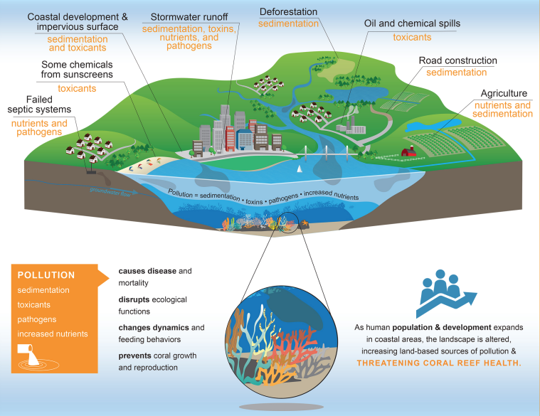 Land-based sources of pollution threats to coral reefs. As human population and development expands in coastal areas, the landscape is altered, increasing land-based sources of pollution and threatening coral reef health.